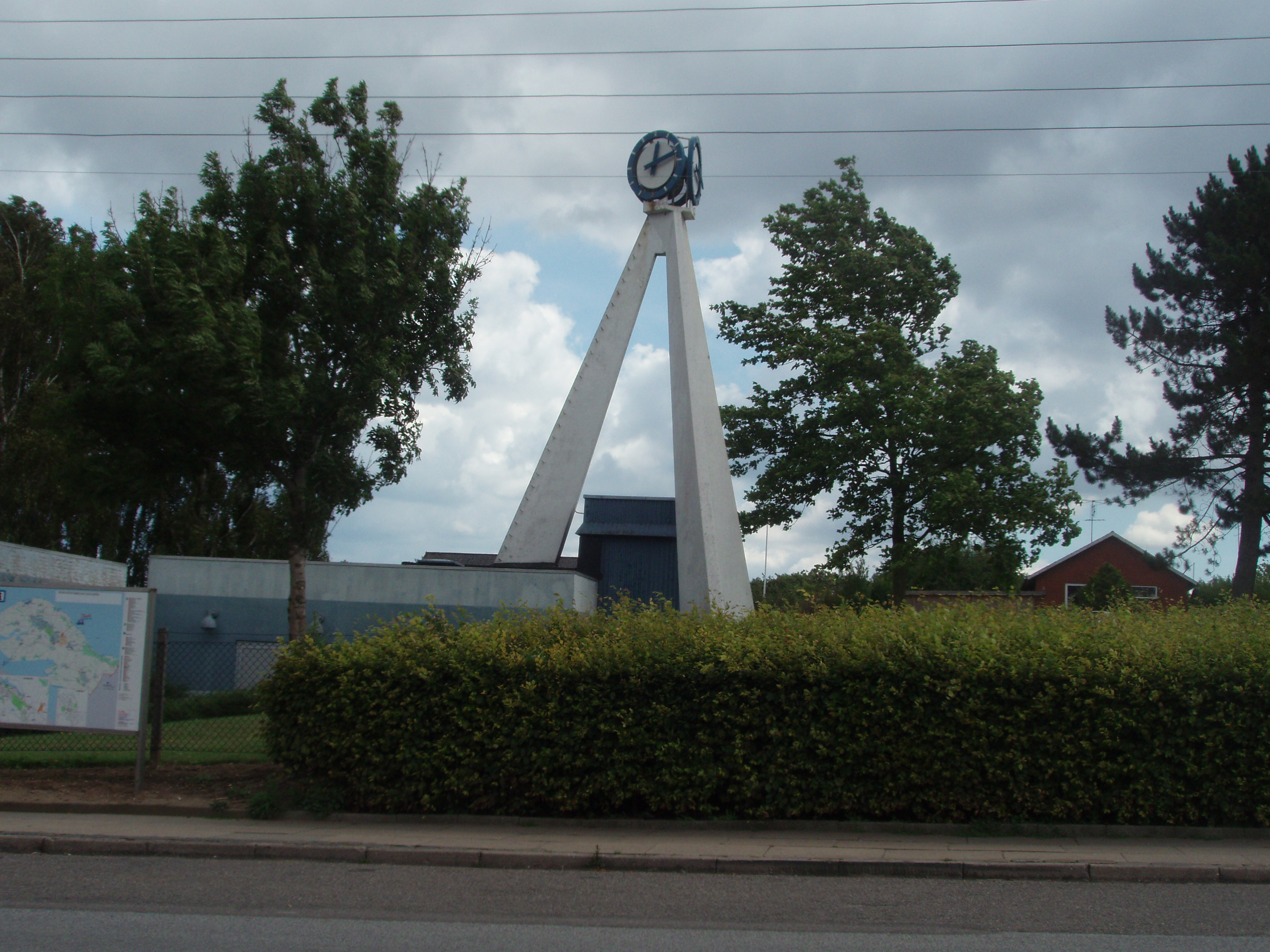 Water works, Langesø, Denmark